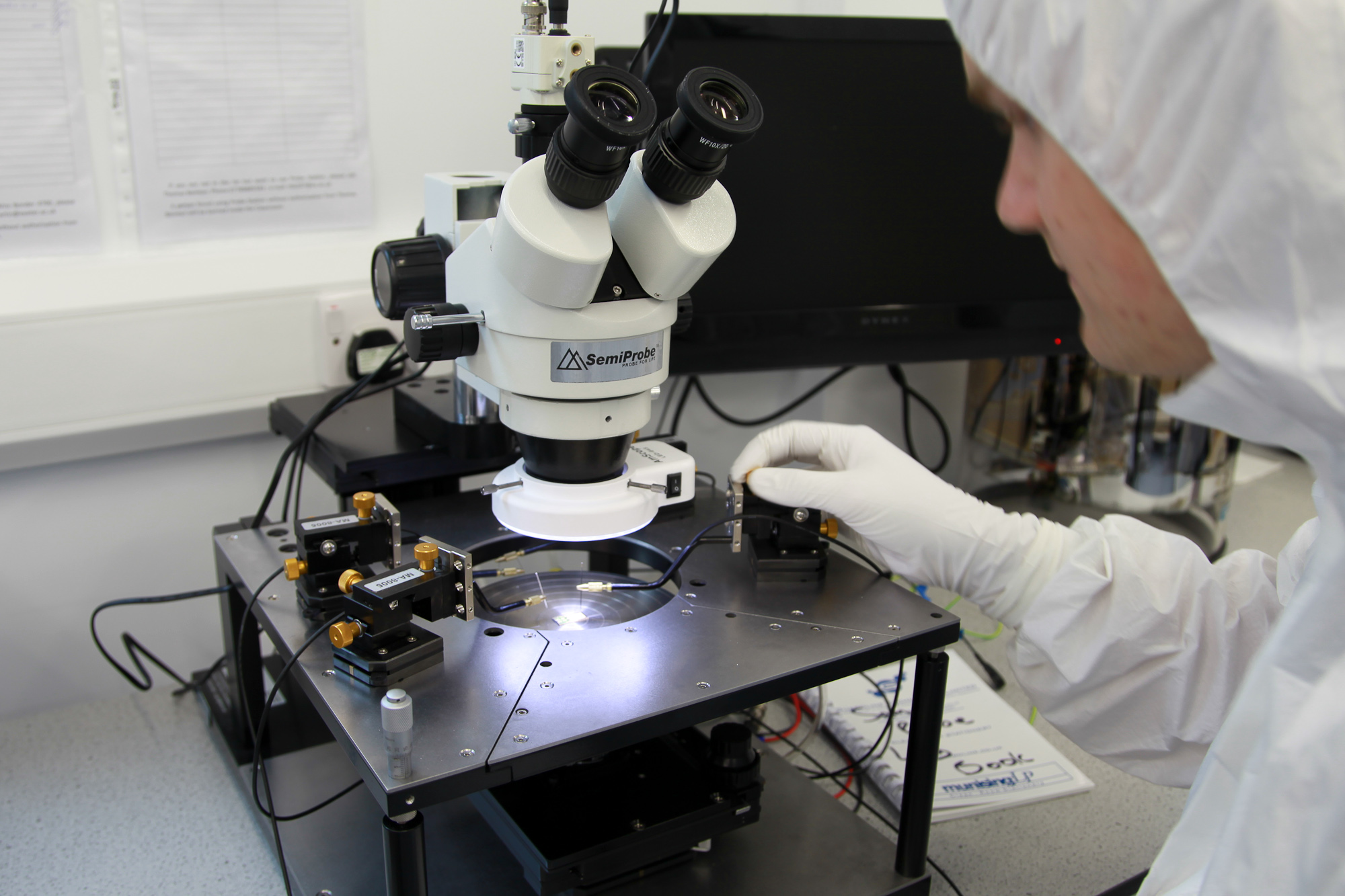 Positioning test probes on to a microchip after wire bonding - Quantum Systems and Nanomaterials fabrication facilities